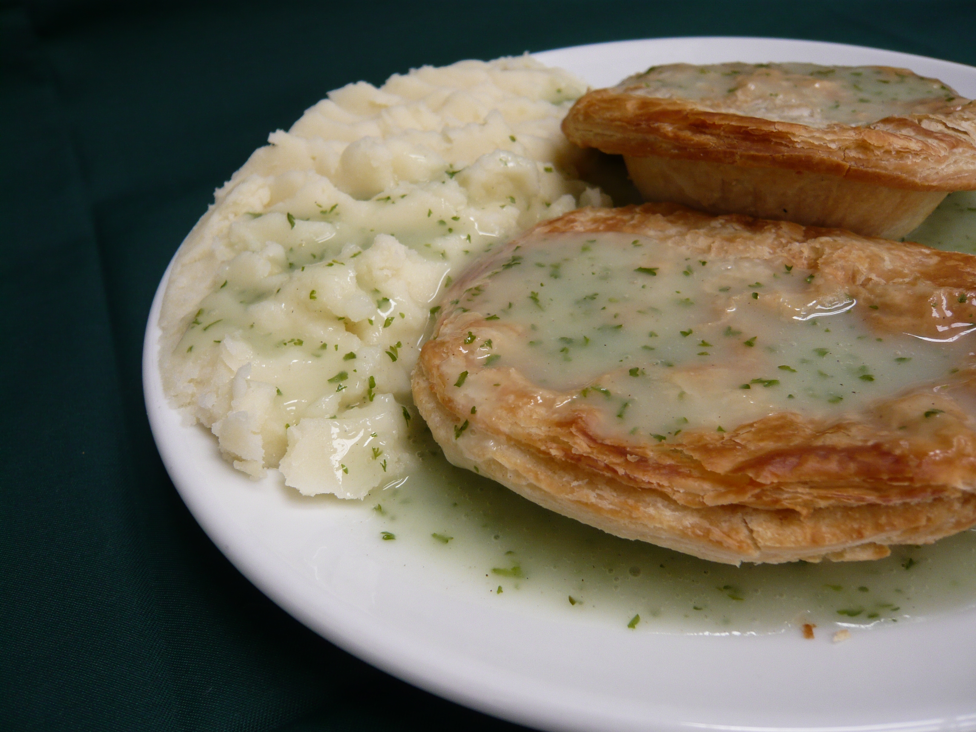 A plate of traditional London pie, mashed potato with liquor gravy